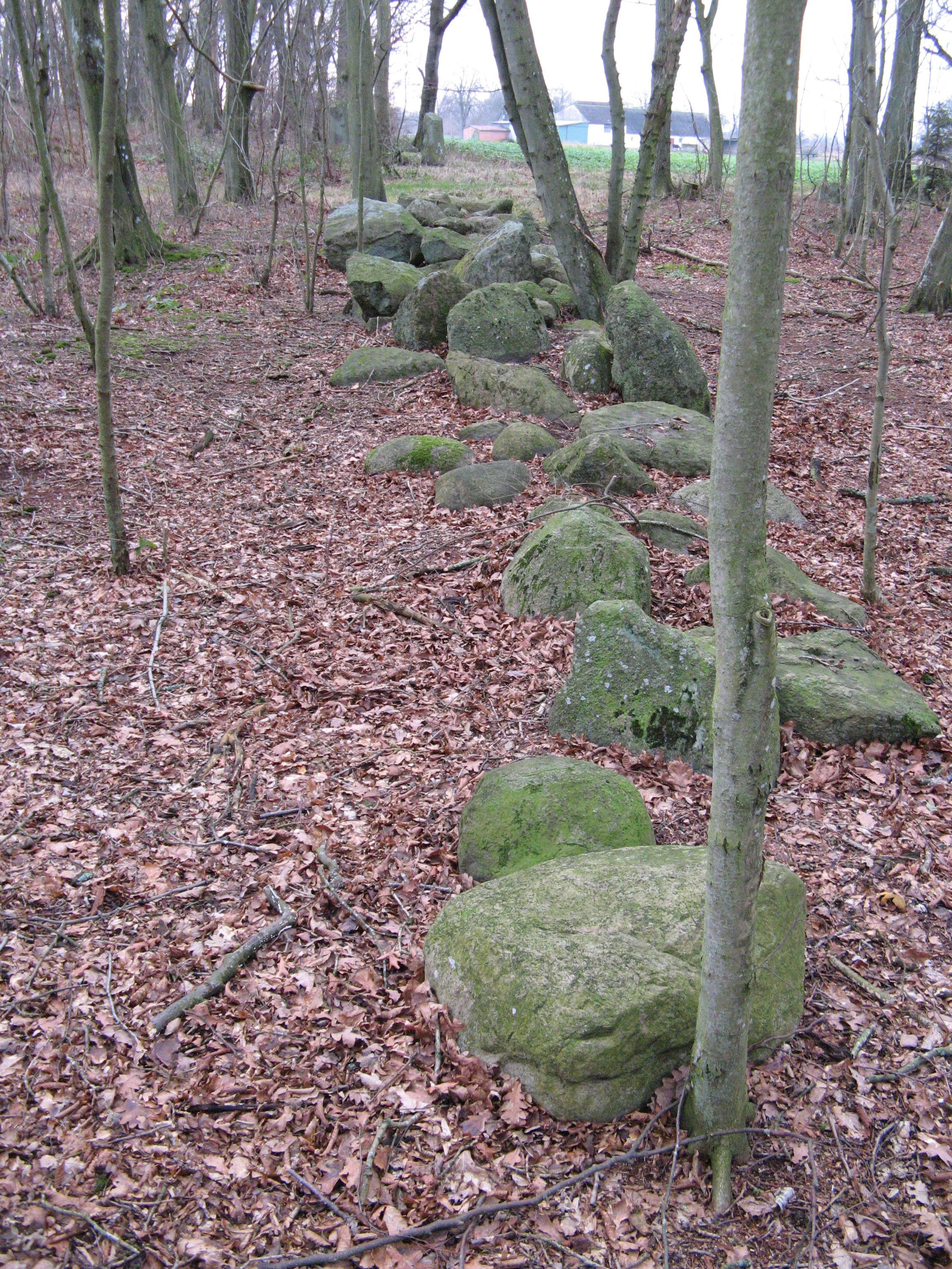 Gryet Bauta stones, rock stone grave, Bornholm